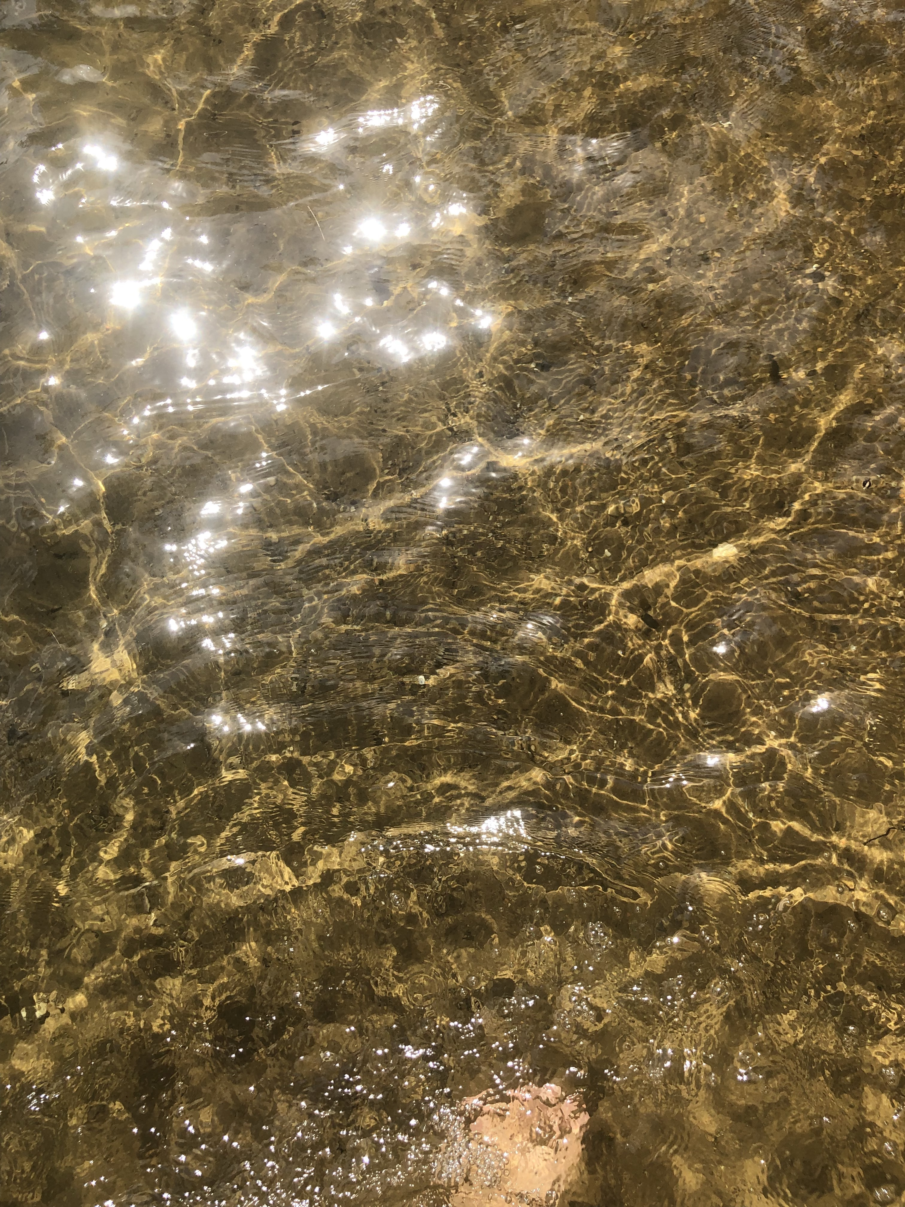 The lake is spring fed with a sandy bottom.